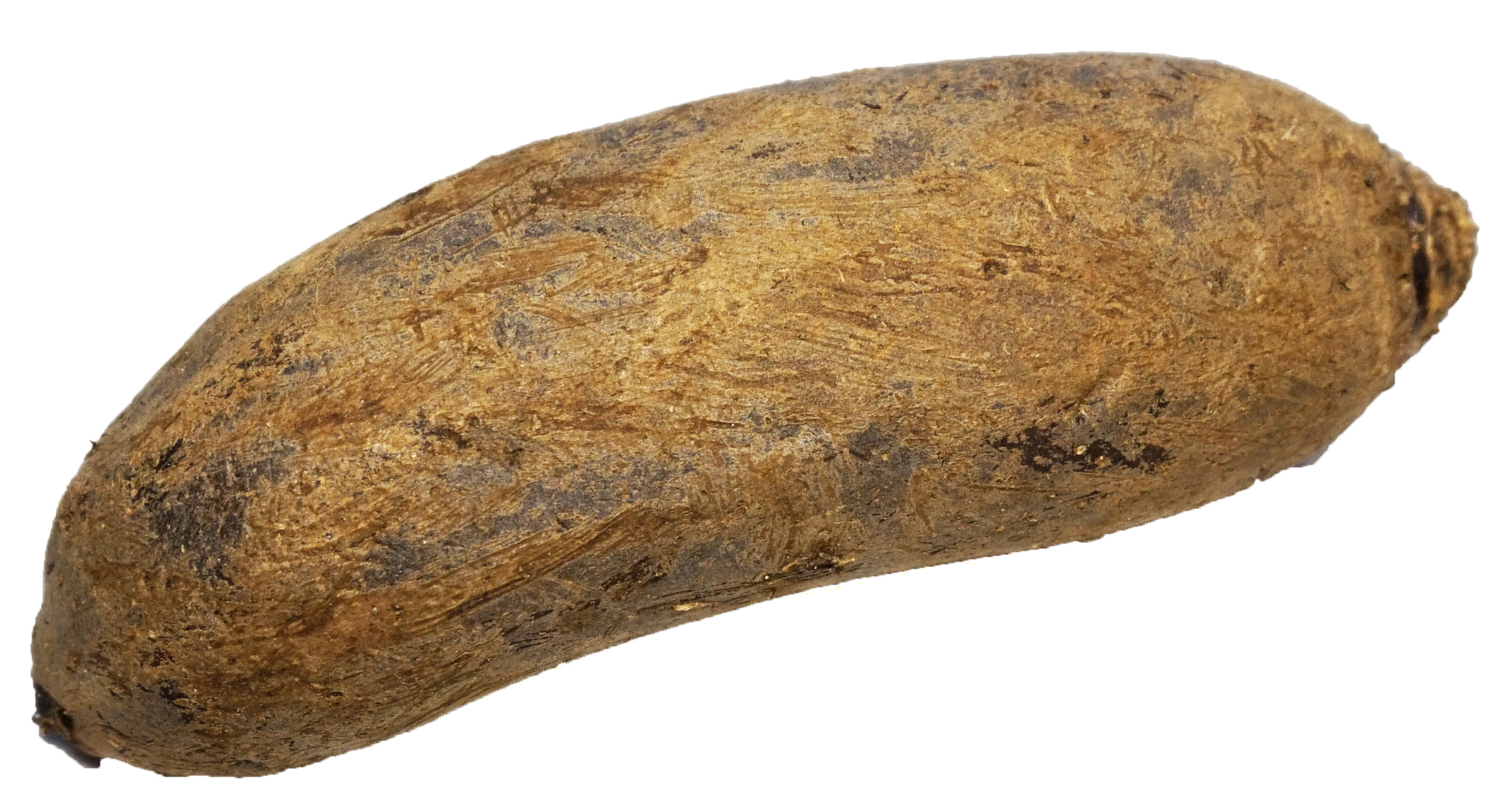 A beetroot.